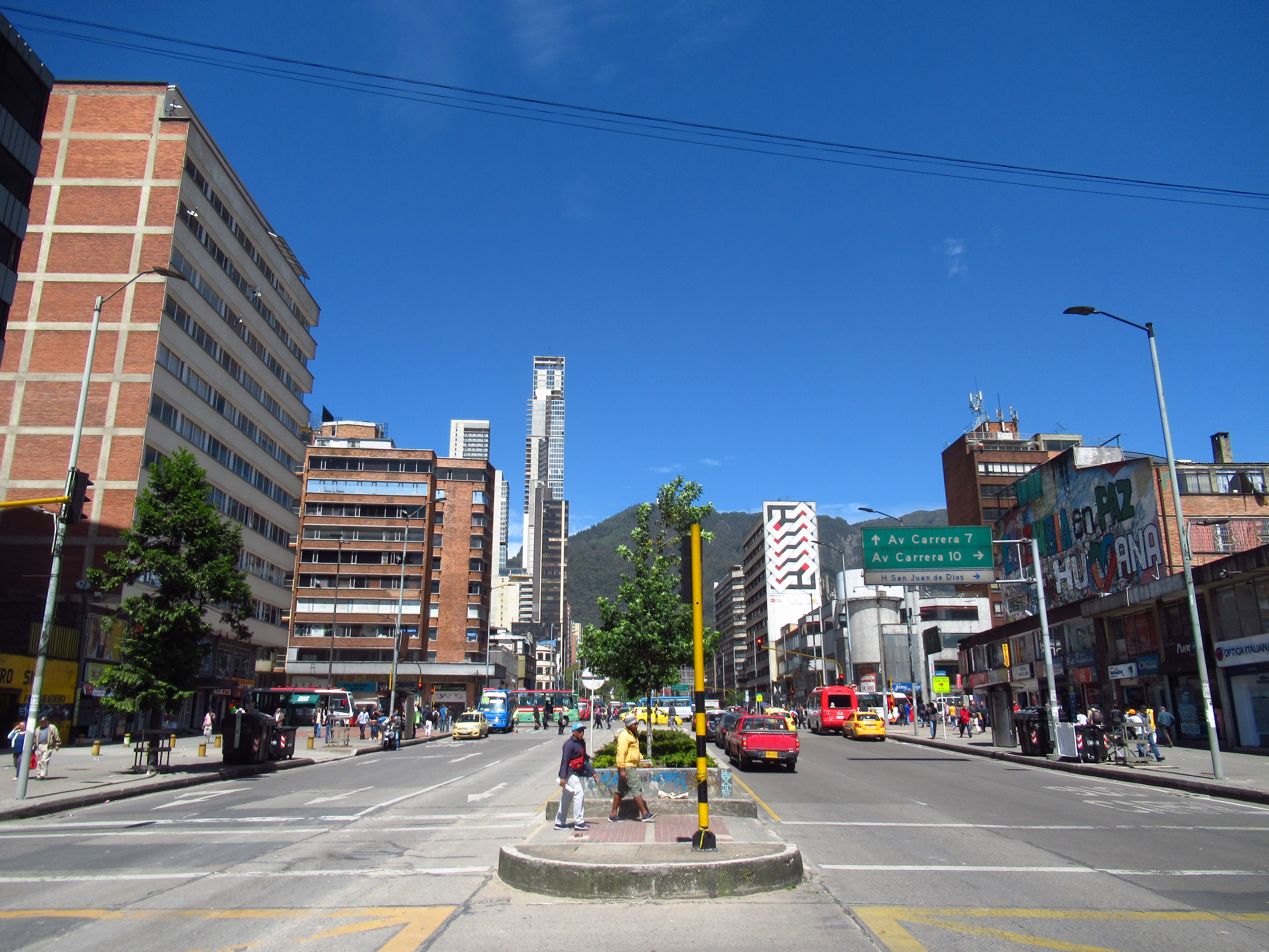 Bogotá